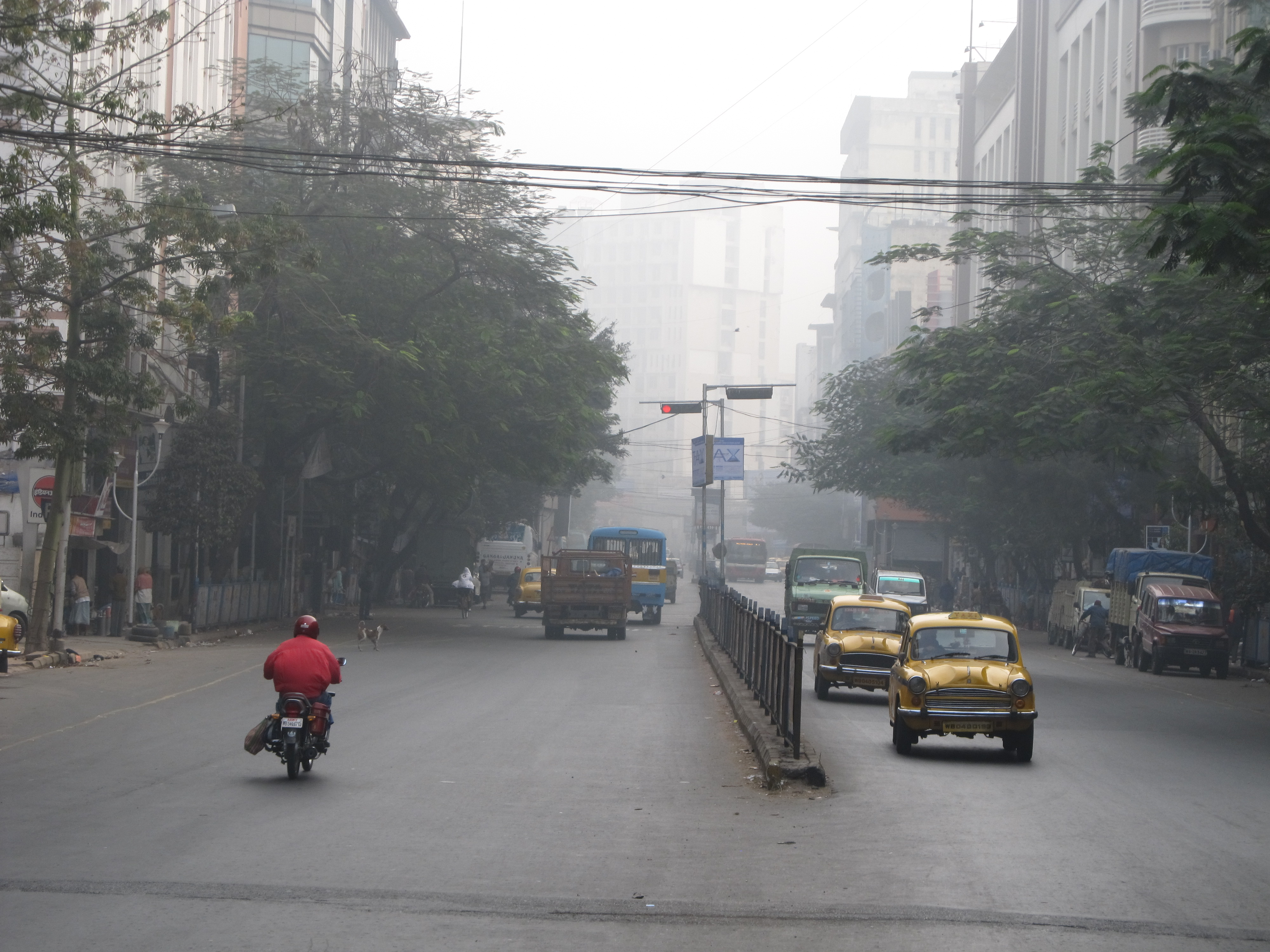 Kolkata